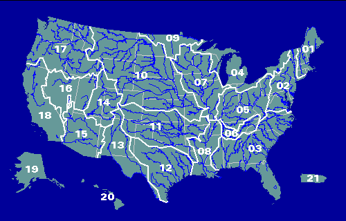 Map of the 21 "regions" of the USGS hydrologic unit system, AKA Watershed Boundary Dataset (see Hydrological code#United States). Region numbers and names listed below